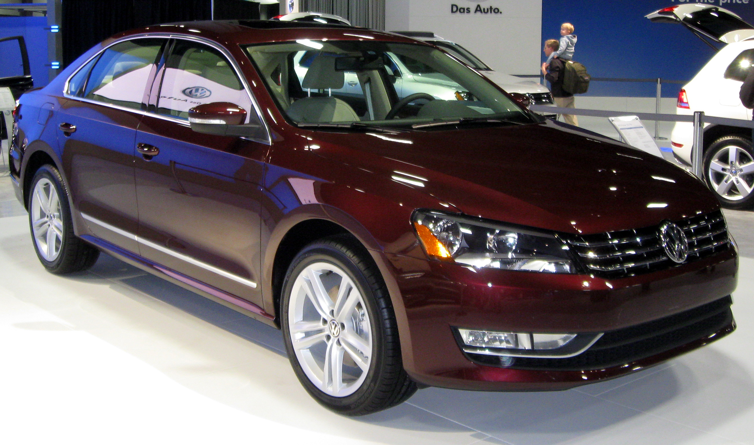 2012 Volkswagen Passat photographed at the 2011 Washington (D.C.) Auto Show.